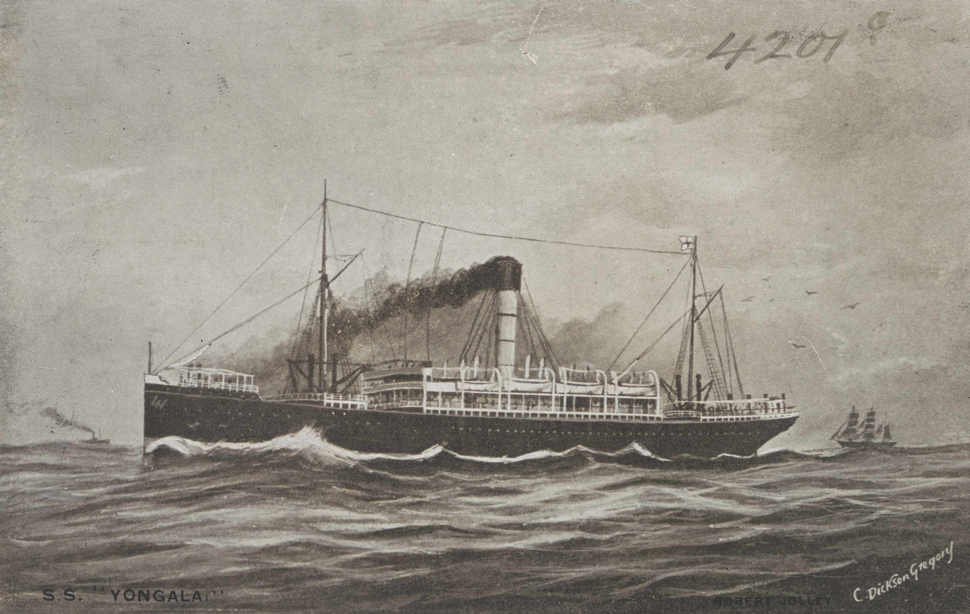 Original caption: "S. S. Yongala, Postcard of a painting or drawing by Charles Dickson Gregory, of the steam ship "Yongala" on the waves.The files which now comprise the Victorian Patents Office Copyright Collection were begun by the Victorian Patents Office in 1870. In order to register copyright, a copy of the photograph, print or illustration was lodged with the Victorian Patents Office at the Melbourne Town Hall. A number was assigned and the photographs were mounted in scrapbooks. The photographs were stamped with the date of registration but this ceased in 1873. The original registers are now in the National Archives of Australia. The Picture Collection holds photocopies of these registers. The registers or indexes contain the following information: Date of registration, name and address of proprietor or author, description of the work and date of first publication. Images were registered from 1870 until 1906. The collection was transferred to the Melbourne Public Library in 1908."